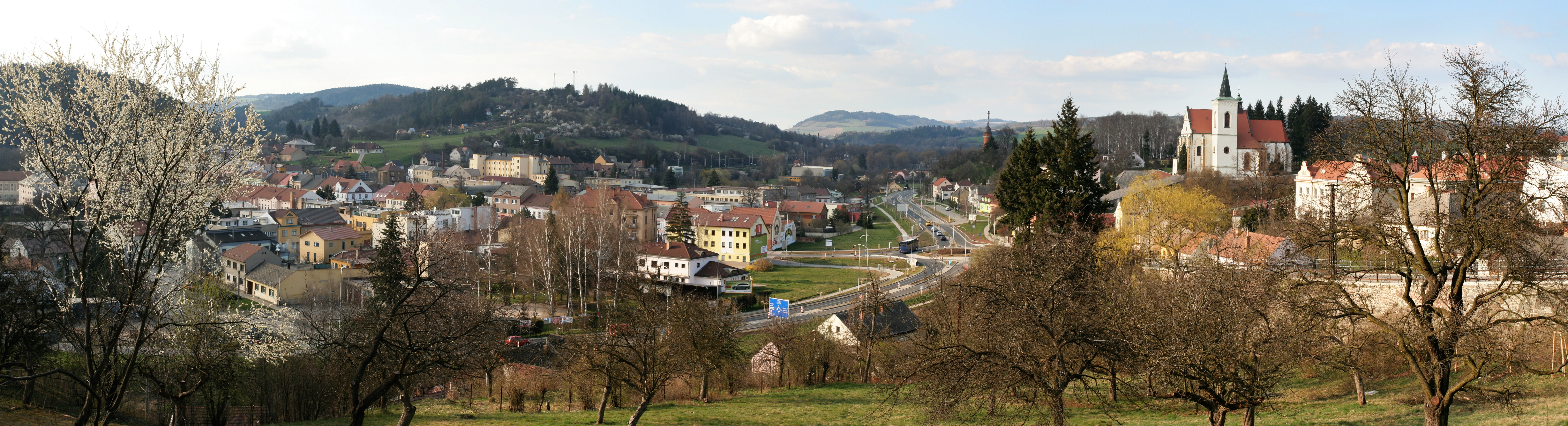 Panorama of Letovice